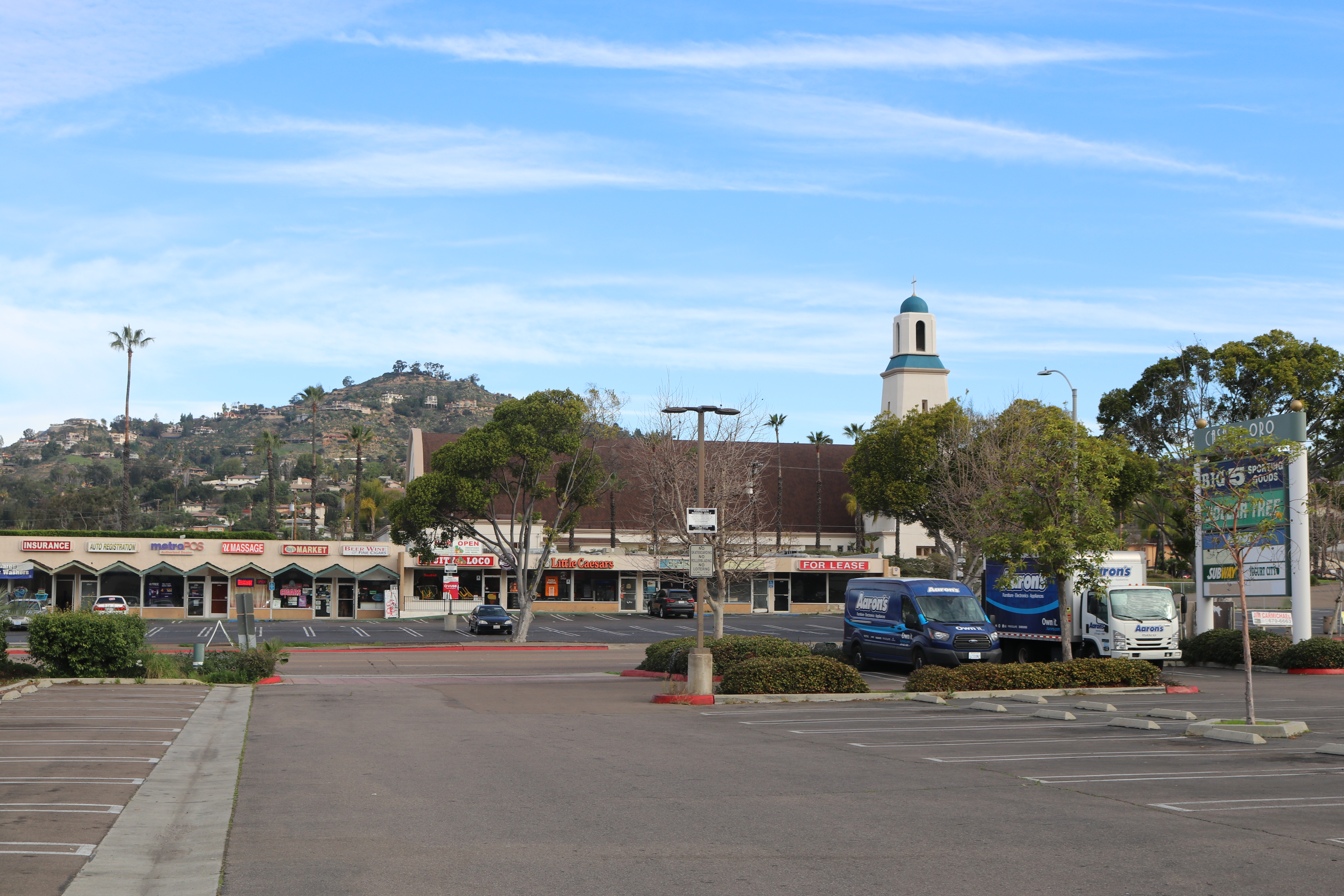 Arguably the two biggest landmarks in Casa de Oro can been seen here with Mt. Helix in the back ground with the non-profit public benefit park at its top which is responsible for preserving and enhancing the Park, amphitheater and cross memorial. Also the Santa Sophia Church Steeple can be seen which started construction in June 1957 & the first Mass in the new church was celebrated on July 6, 1958.